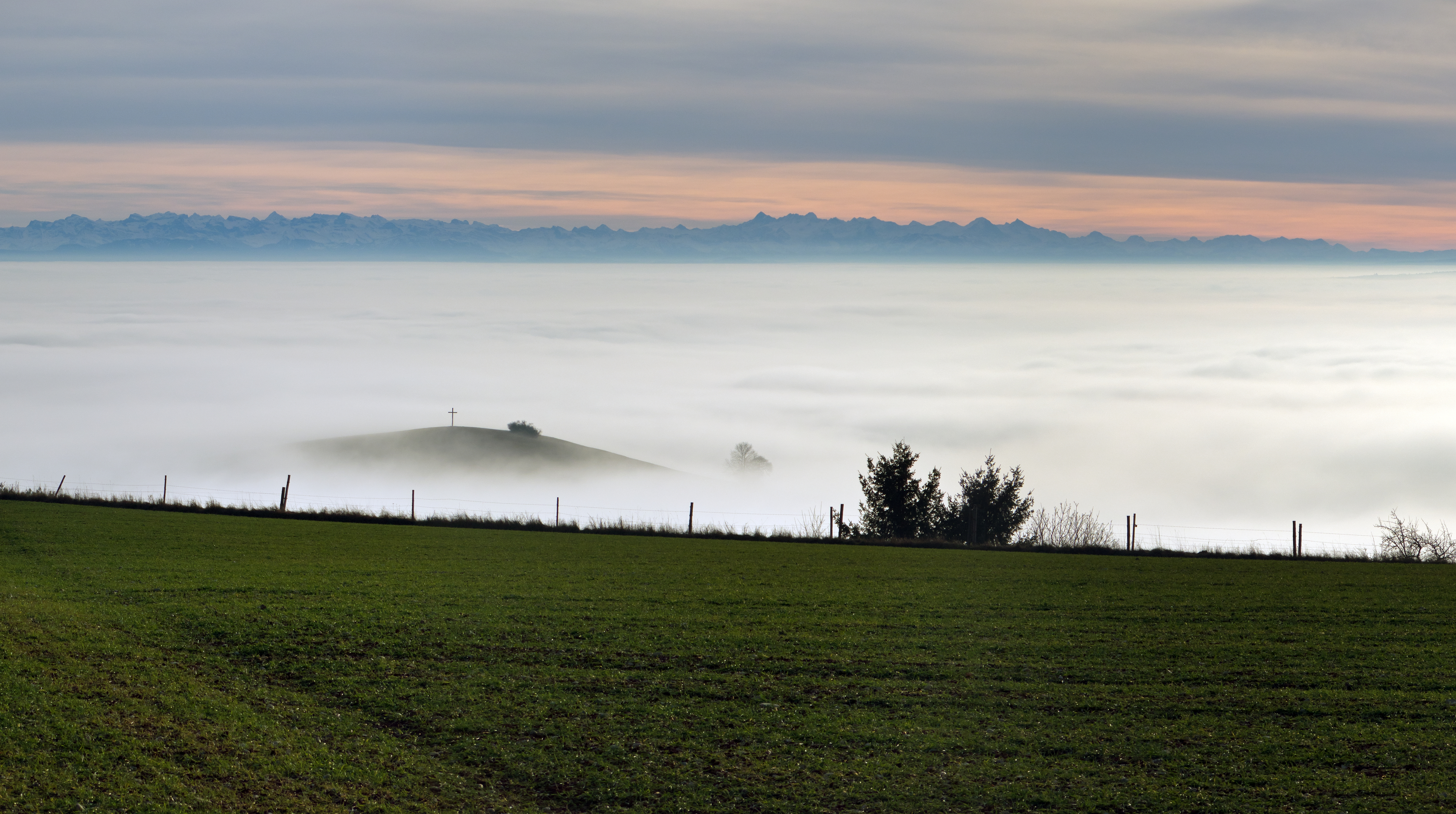 View from the Napoleonseck near Tengen-Watterdingen (Baden-Württemberg, Germany) to the Swiss Alps